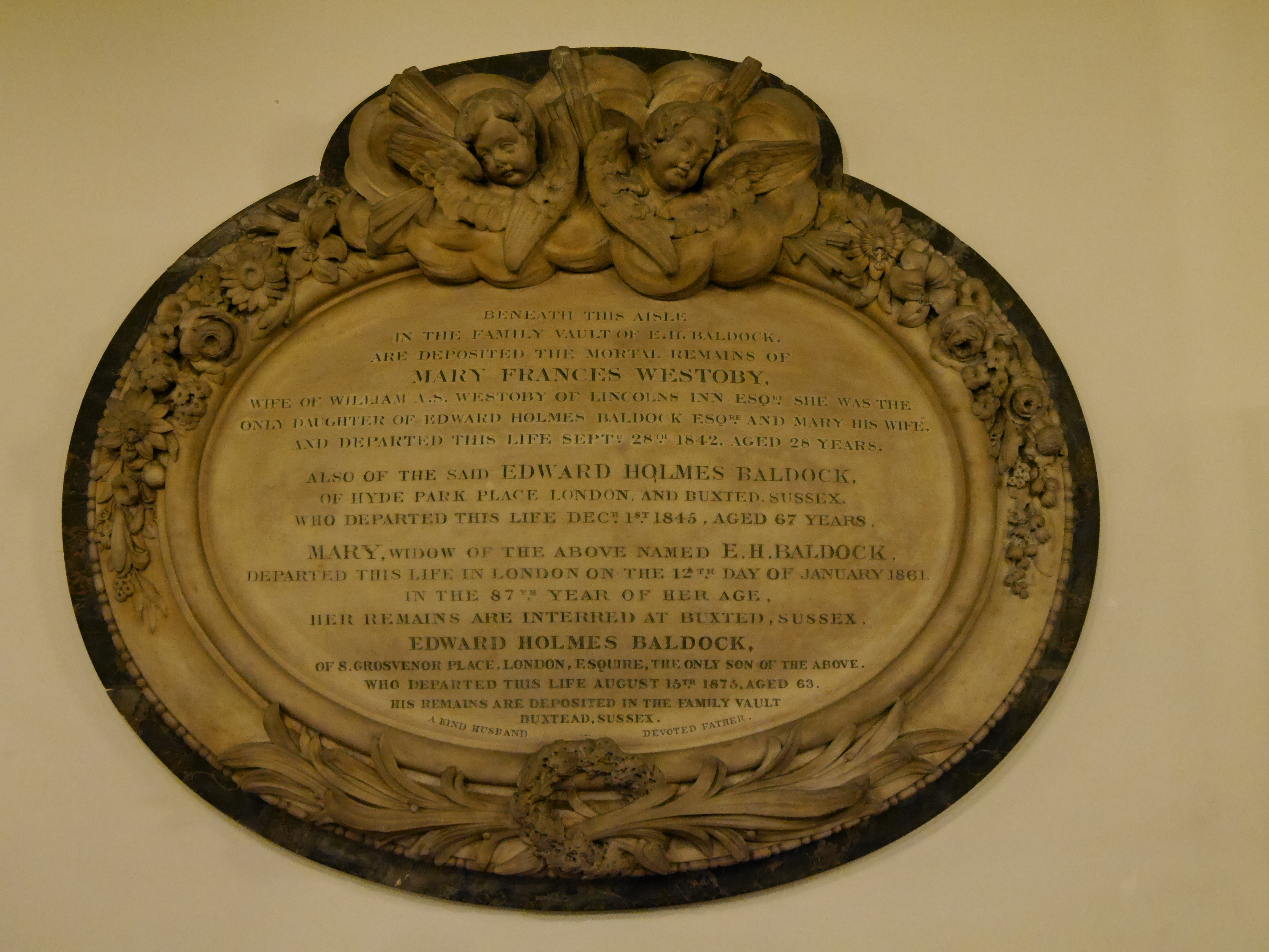 St Pancras New Church, February 2015